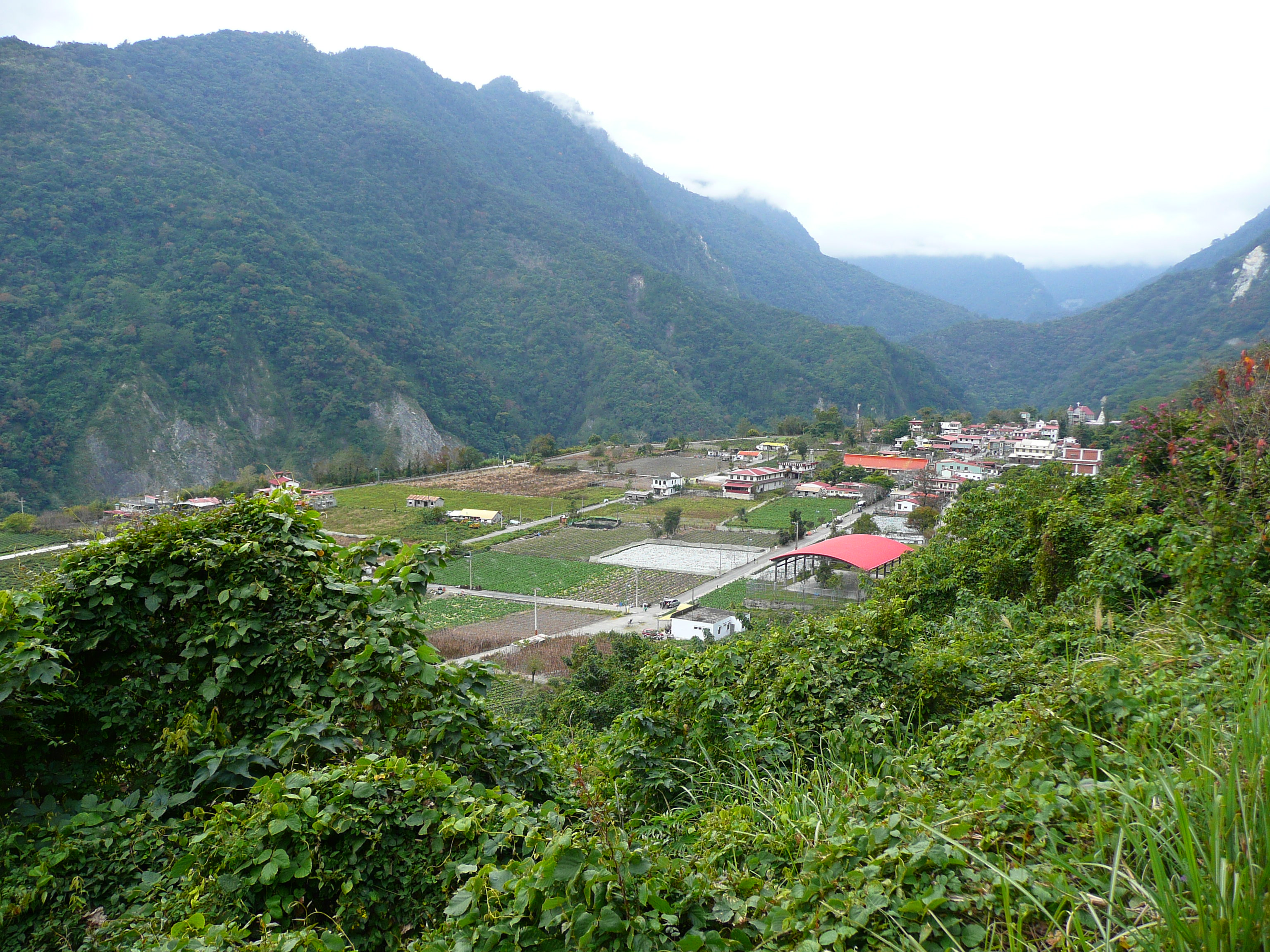 南橫利稻 Lidao on Southern Cross-Island Highway